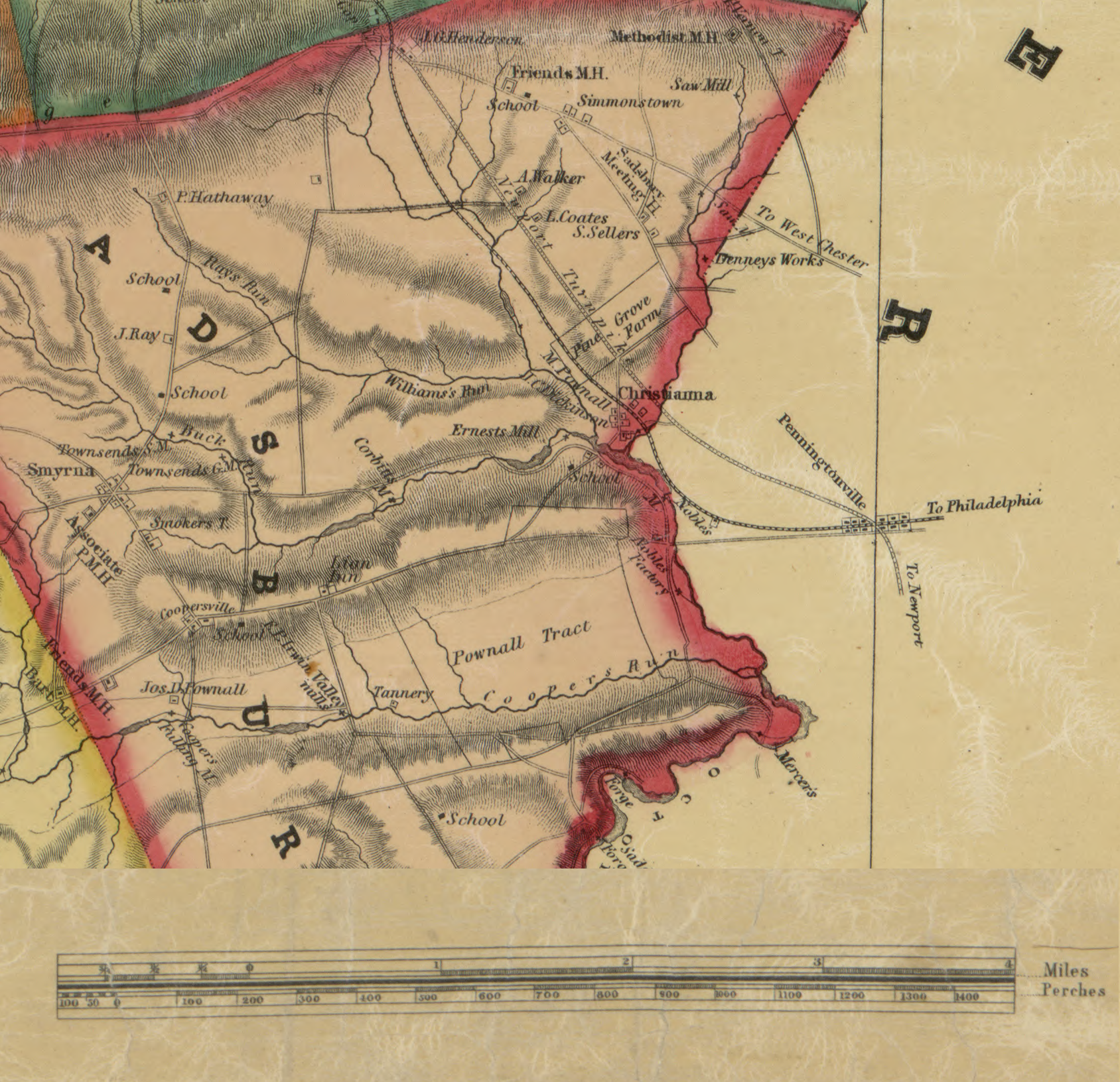 A portion of an 1851 map showing various places of importance for the Christiana Riot. Notably Penningtonville station in Chester county, the community of Christiana in Sadsbury Township (Lancaster county). The Parker house where the attack took place is located in the Pownall Tract.